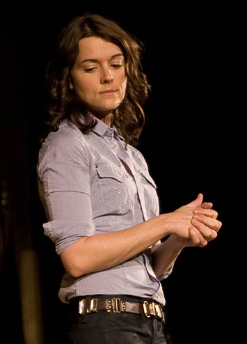 Brandi Carlile on stage in Maine.